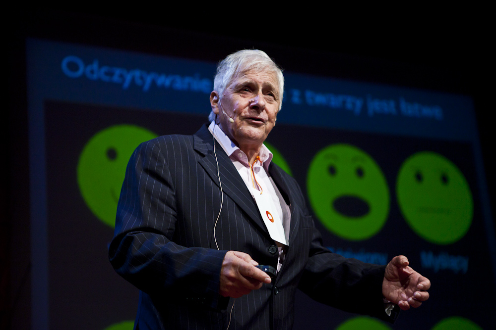 Jerzy Vetulani speaking at TEDx Kraków 2011.